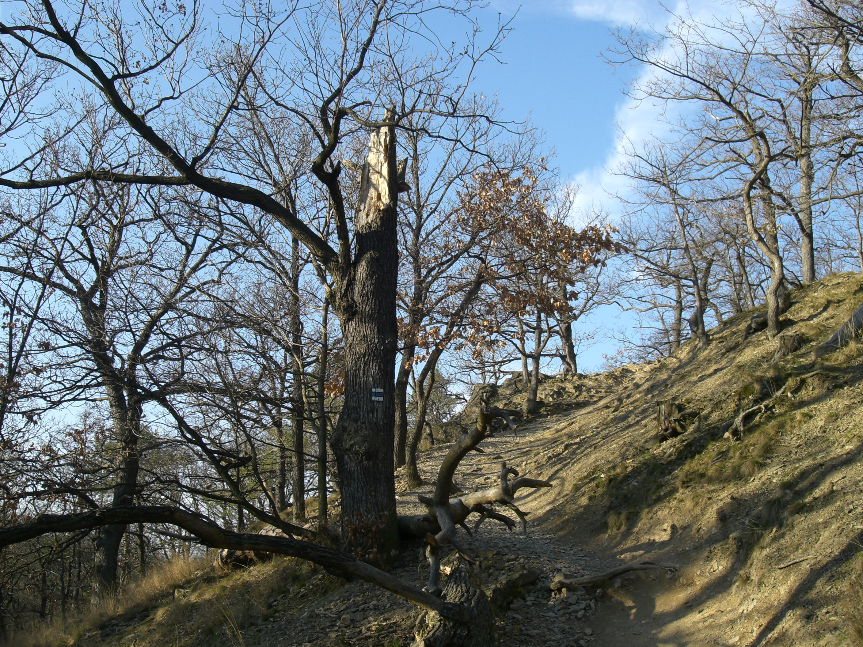 Kunratický forrest - footpath to ruin of Nový Hrádek